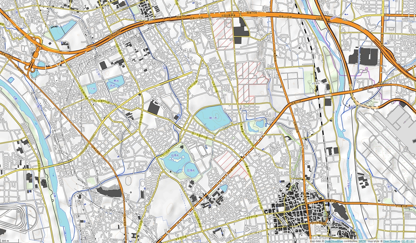 Map of around Koya-pond in Itami City, Hyogo Prefecture, Japan.